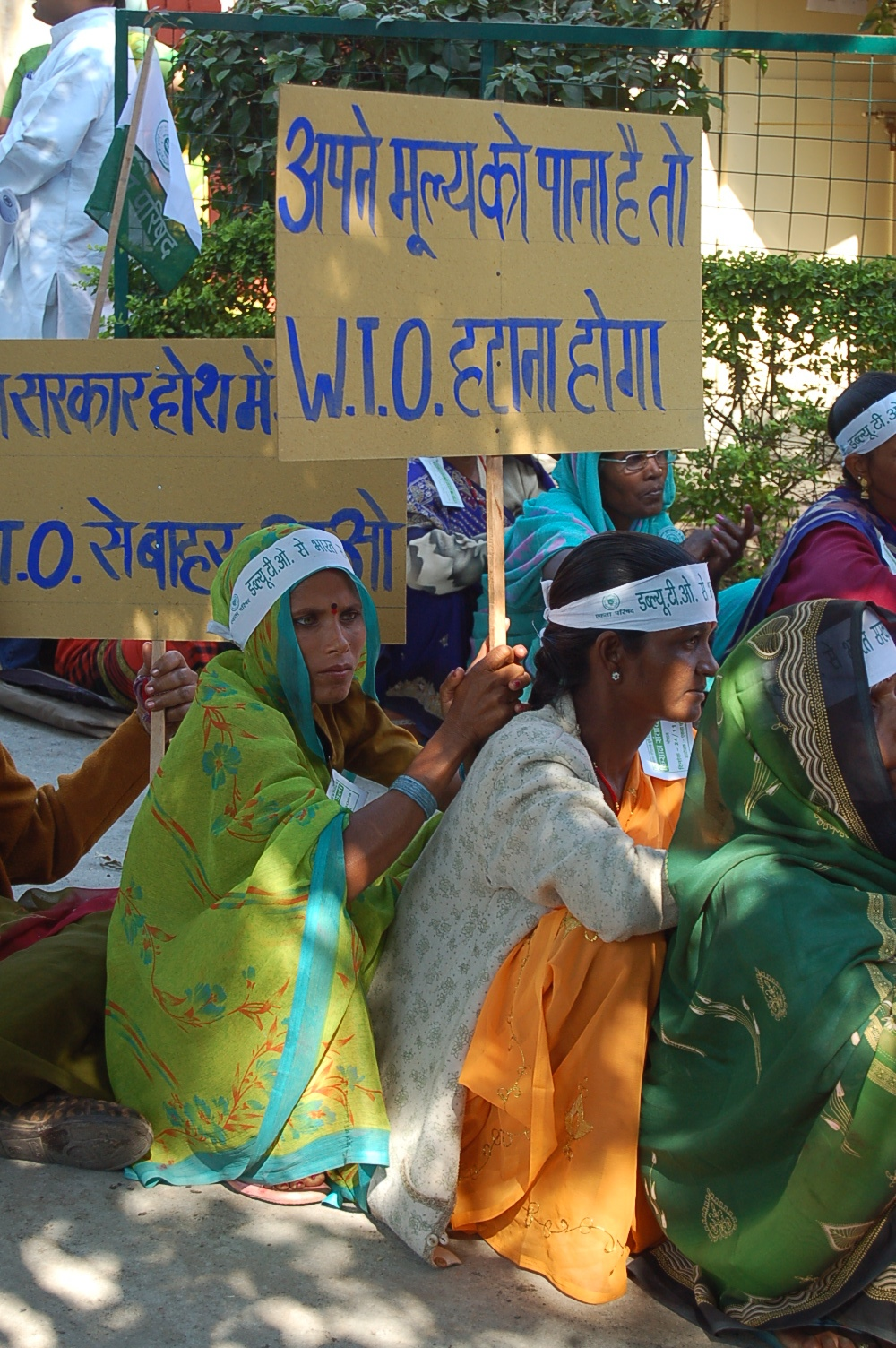 Women at farmers rally against the World Trade Organisation (WTO), Bhopal, India.